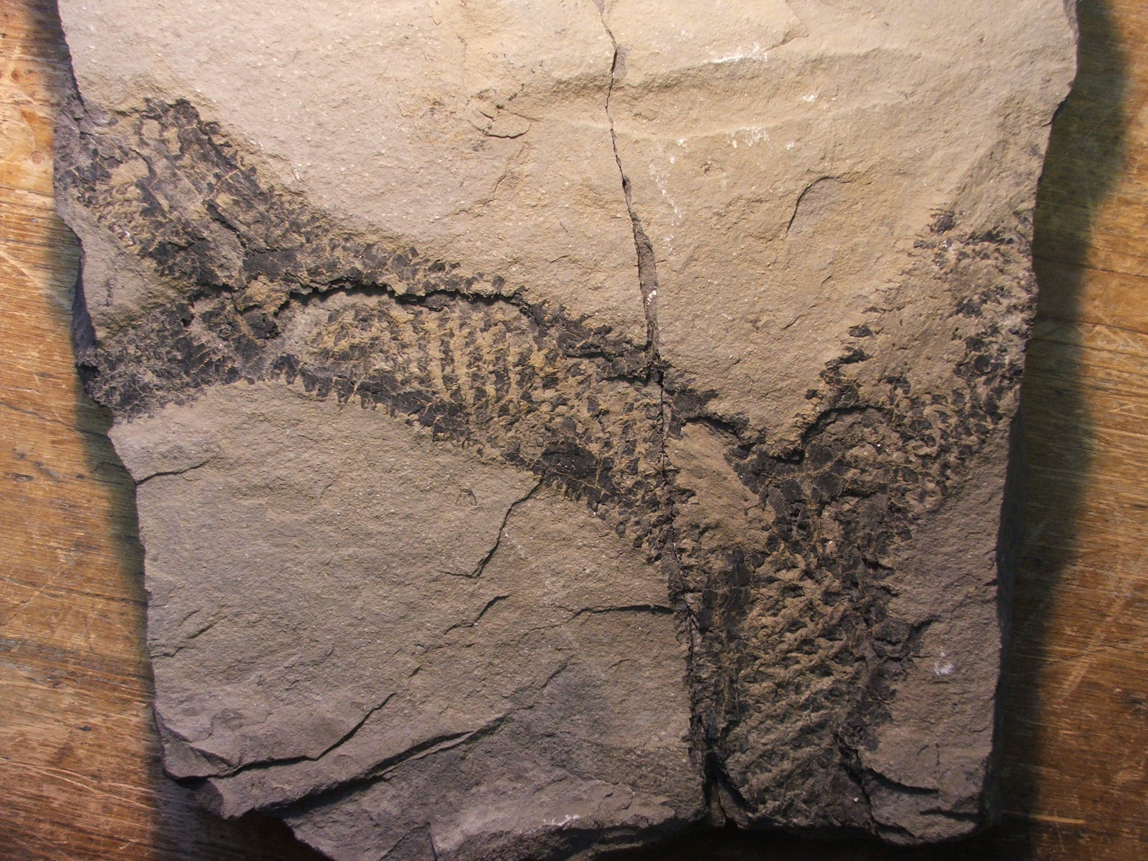 Lepidophloios spp., collected at Dodhead quarry, Burntisland, Scotland, from the Burdiehouse limestone of Carboniferous (Visean) age. Specimen housed in the Sedgwick museum, Cambridge.